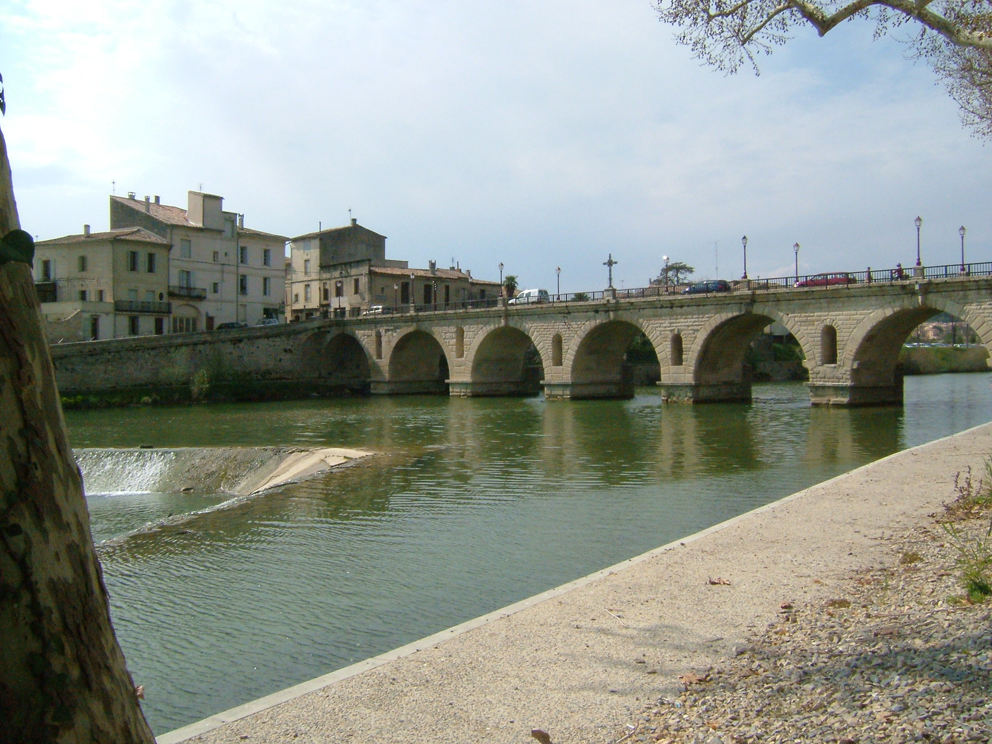 Roman bridge in 30250 Sommières, Gard, France, from the Quai Cleon Griolet.